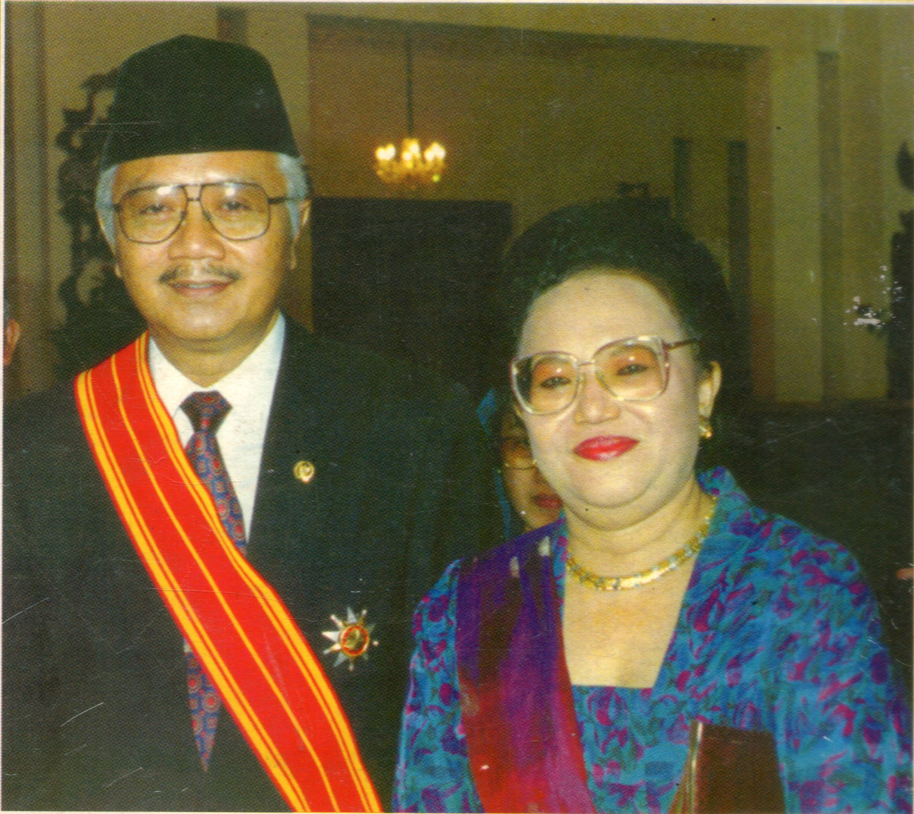 Suryadi and Sri Hartati Wulandari. The photograph was taken after Suryadi receiving the Star of Mahaputera.